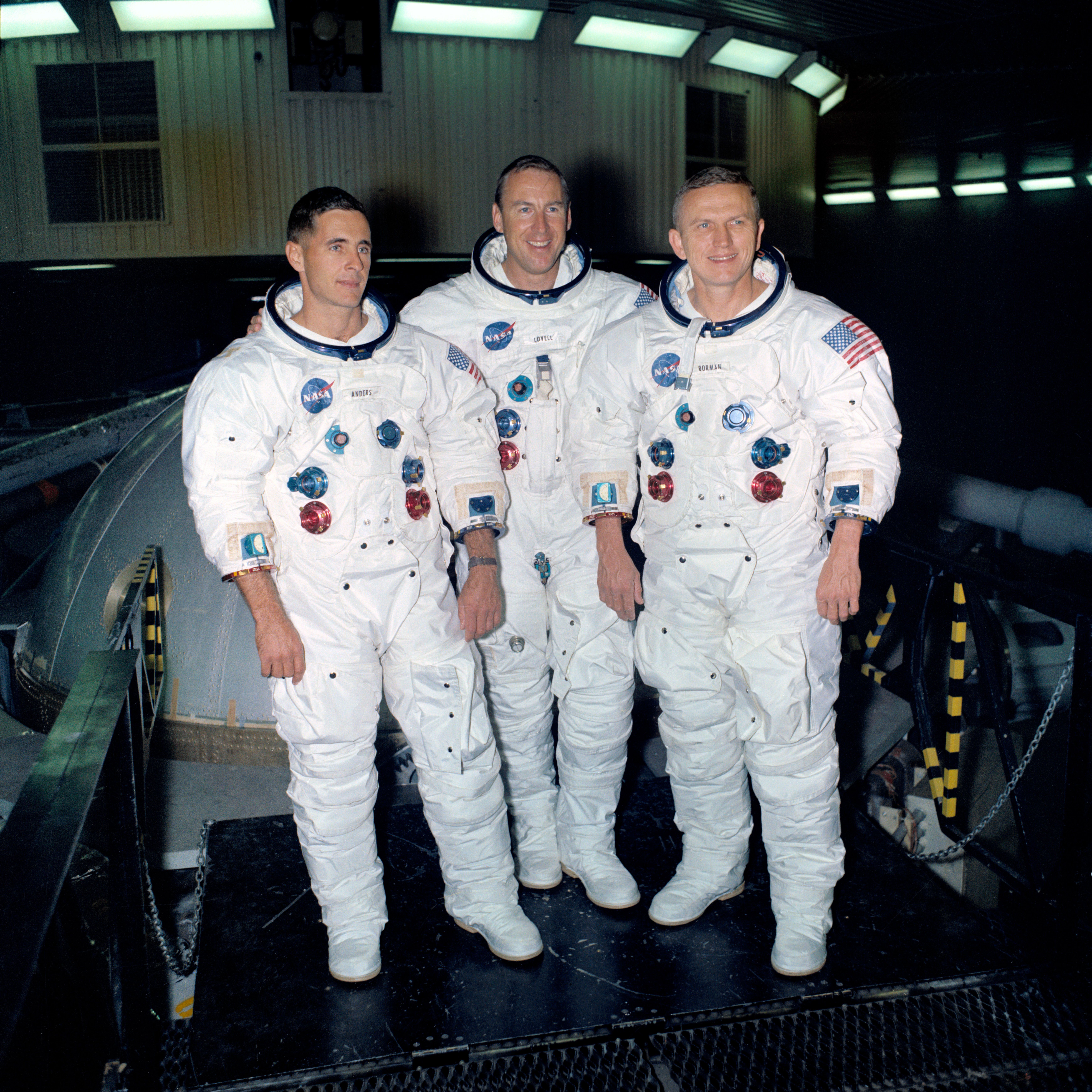 1The crew of Apollo 8 in front of a simulator: From left to right: Bill Anders, Jim Lovell, Frank Borman